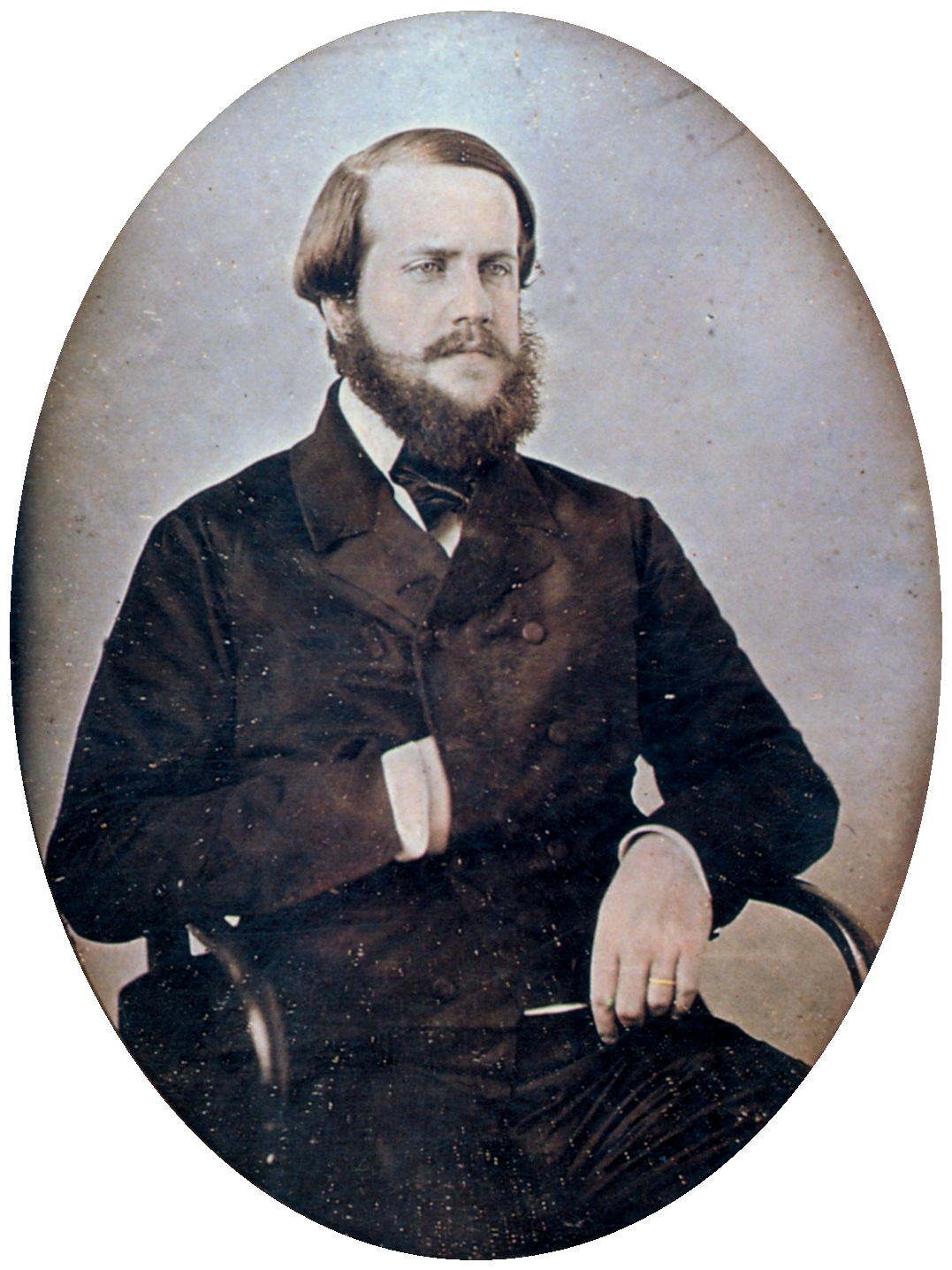 A daguerreotype of Emperor Dom Pedro II of Brazil around age 25, c.1851.